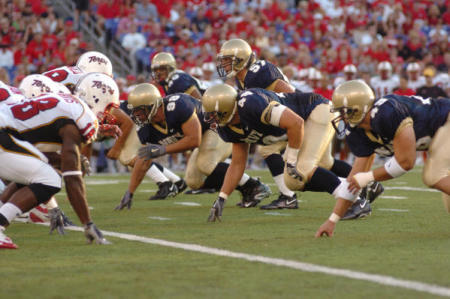 The Navy defense and the Maryland offense at the moment of a snap during the 2005 "Crab Bowl" at M&T Bank Stadium in Baltimore, Maryland. Vernon Davis (#18) is pictured at far left.